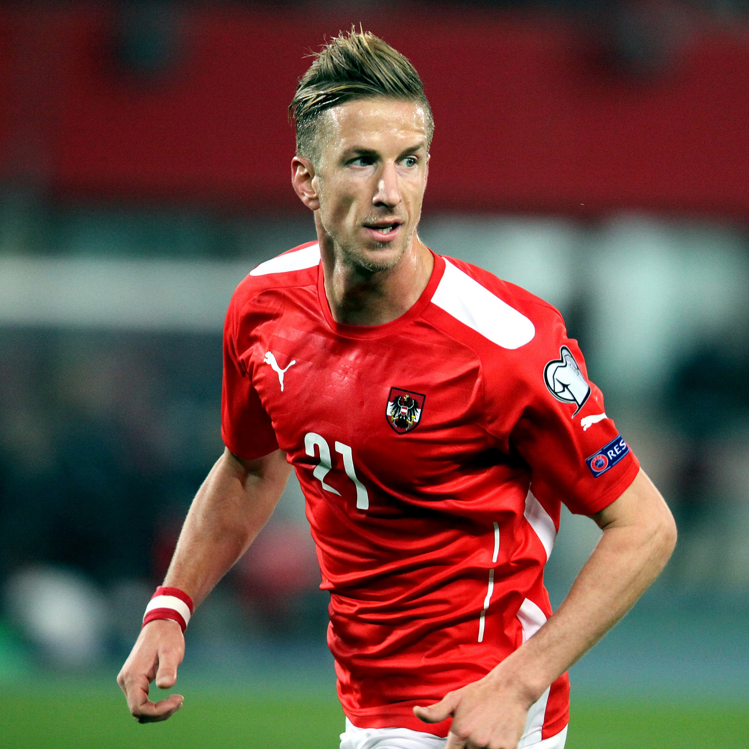 UEFA Euro 2016 qualifying, Group G – Austria (red shirts) vs. Liechtenstein (blue shirts) 3–0 (1–0) on 2015-10-12 in Ernst-Happel-Stadion, Vienna – The photo shows Marc Janko.